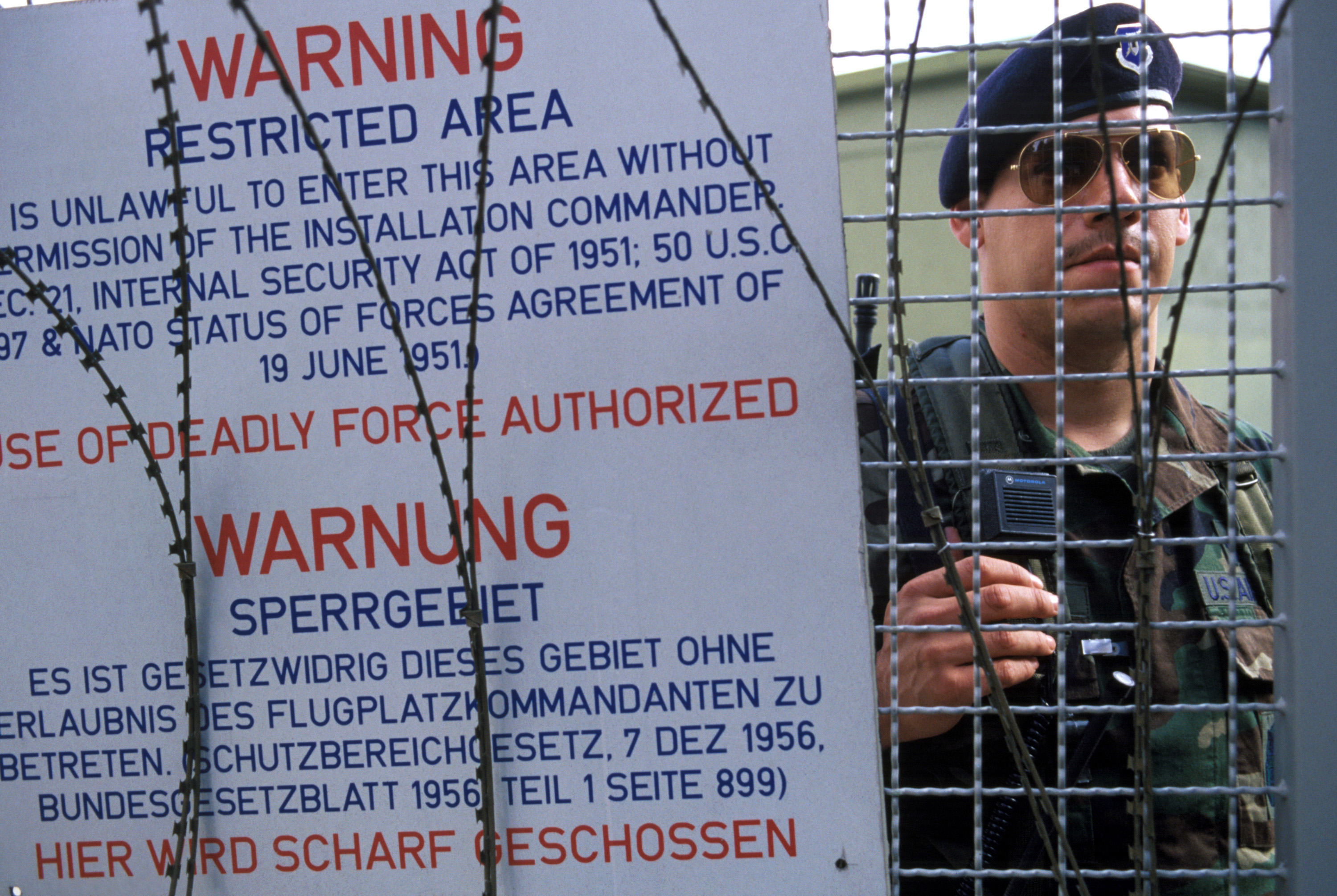 A member of the 50th Security Police Squadron stands behind a barbed wire fence in a weapons storage area. A sign in German and English warns that the area is restricted to authorized personnel only. Security police are preparing the base for a scheduled mass demonstration against the construction of an American cruise missile base at nearby Wuescheim.